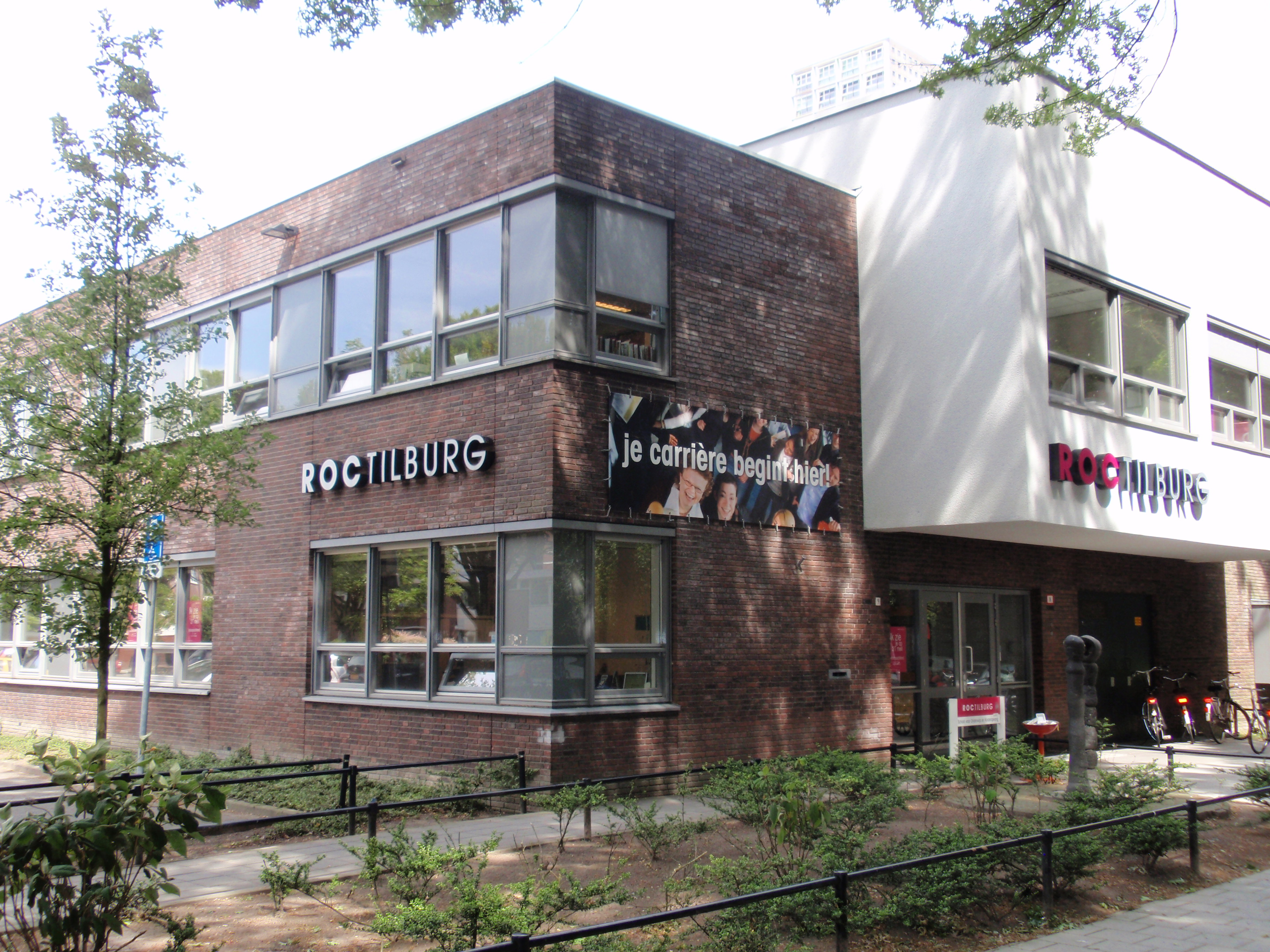 ROC School in the Netherlands (in Tilburg)